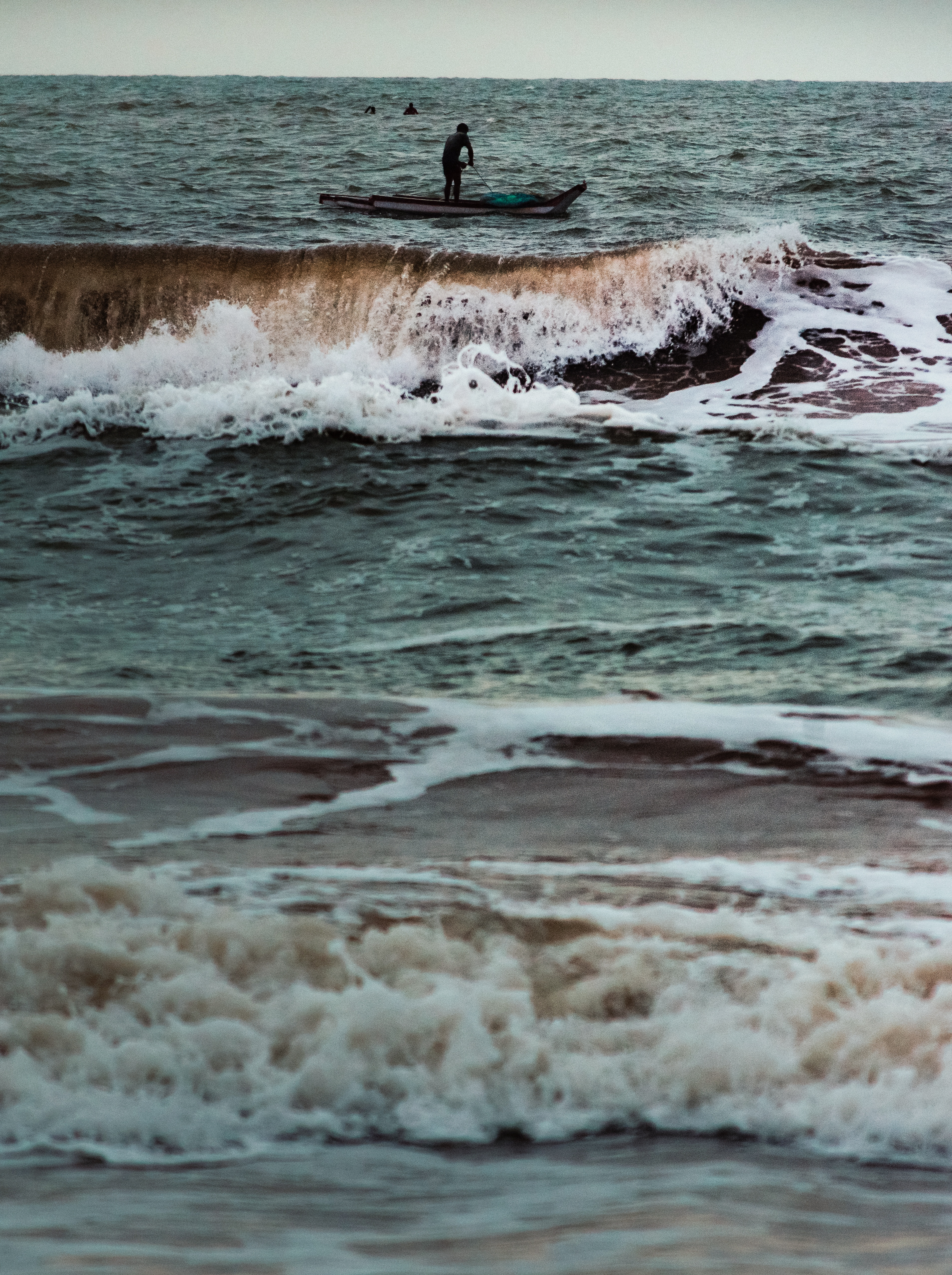 Fishing boat spotted near Suryalanka beach